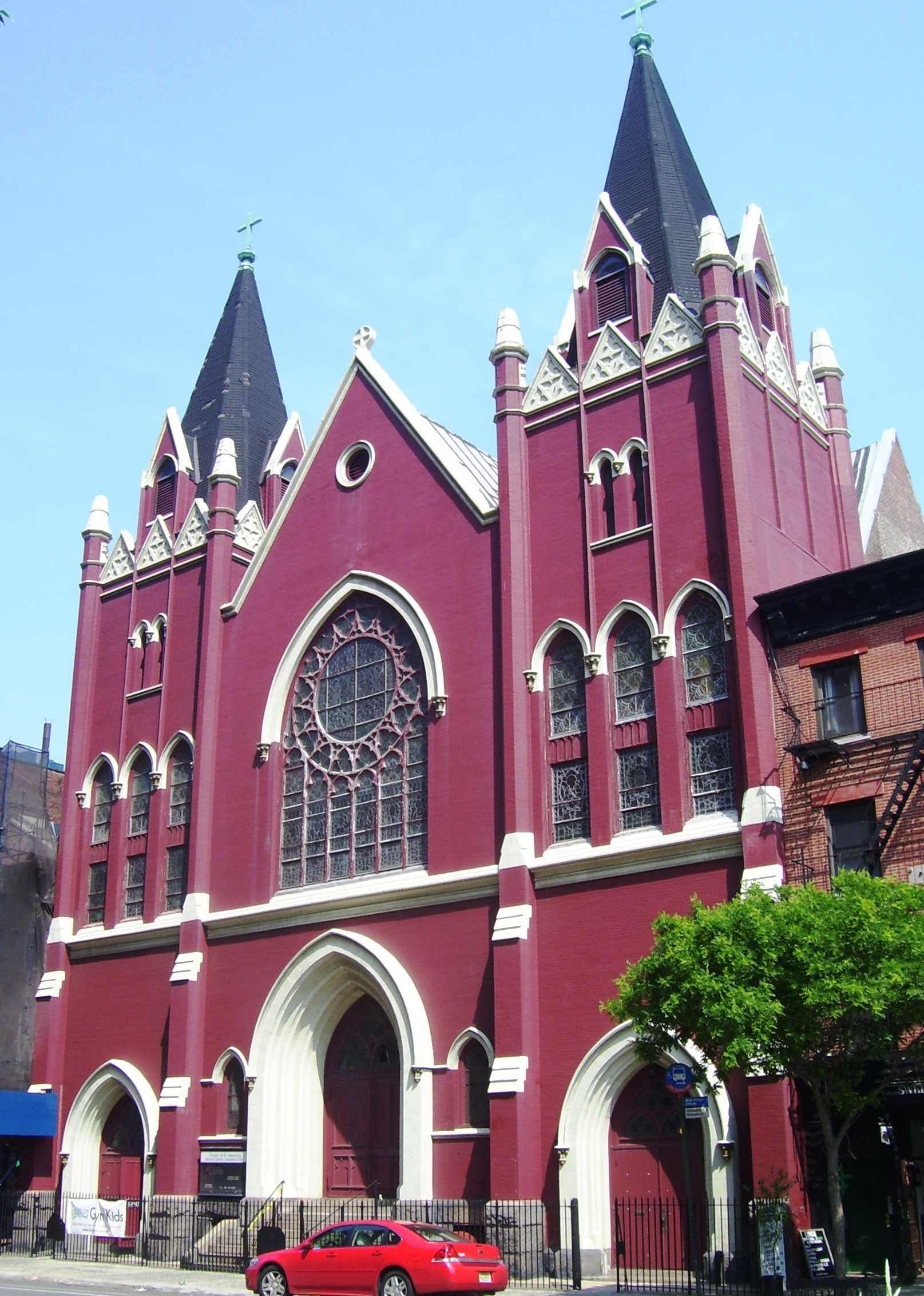 The Church of St. Veronica at 153 Christopher Street between Greenwich and Washington Streets in the West Village area of the Greenwich Village neighborhood of Manhattan, New York City was built in 1890 and 1902-1903 and was designed by John J. Deery in Victorian Gothic Revival style. The cornerstone was laid in March 1890 and the basement was completed in October 1890. The congregation used this as a sanctuary until sufficient money were raised to resume construction in 1902. It is located within the Greenwich Village Historic District Extension I. (Source: From Abyssinian to Zion (4th ed.) an "NYCLPC Greenwich Village Historic District Extension Designation Report")